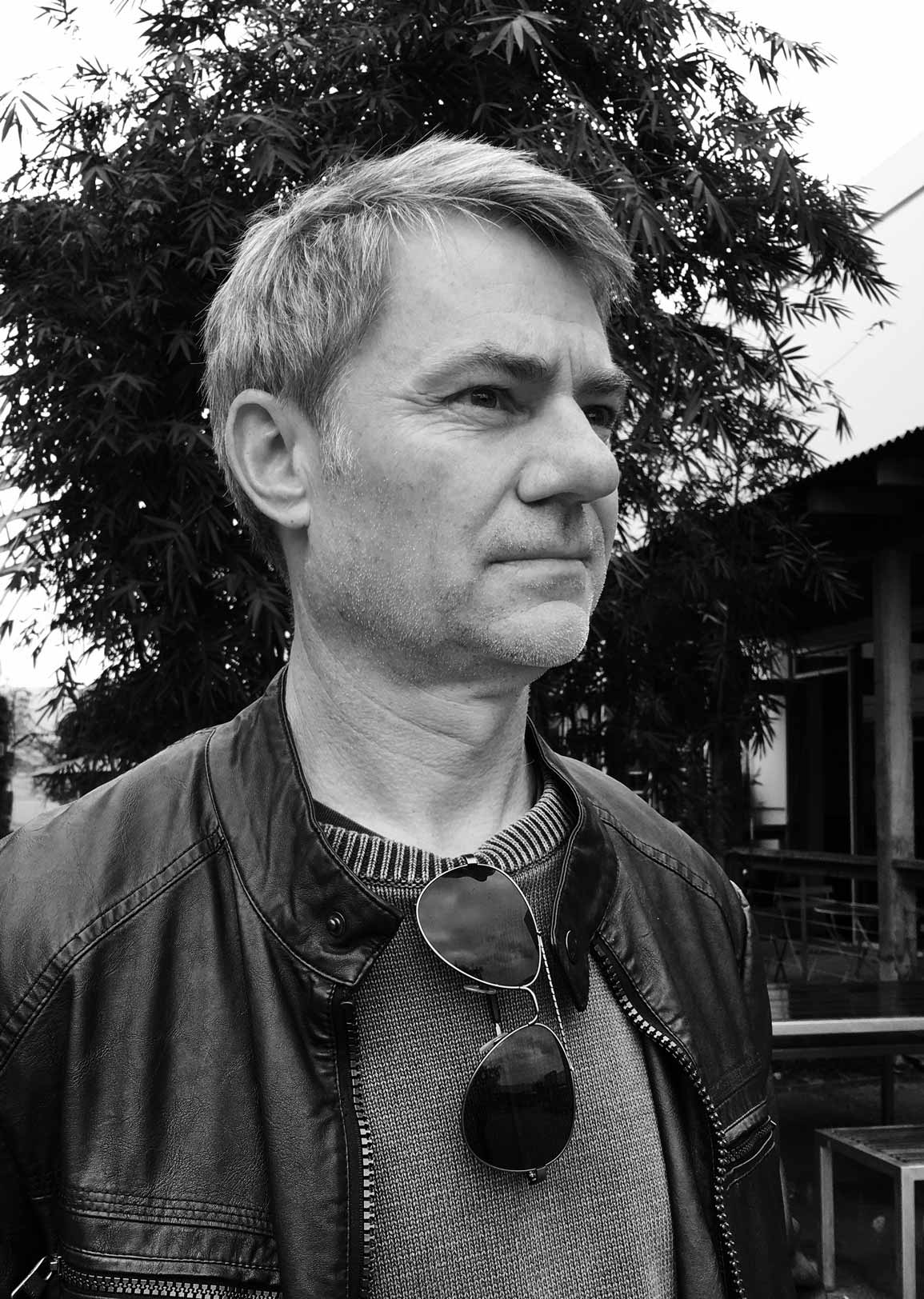 Per Welinder in Santa Ana, California, 2016. Welinder was a leading member of the elite Powell-Peratla Bones Brigade skate team during the 1980s before leaving Powell to launch several high-profile, successful businesses in the 1990s with Tony Hawk. Welinder has become one of the most respected entrepreneurs and businessmen in the skate industry today. Photographer unknown; courtesy of Per Welinder.